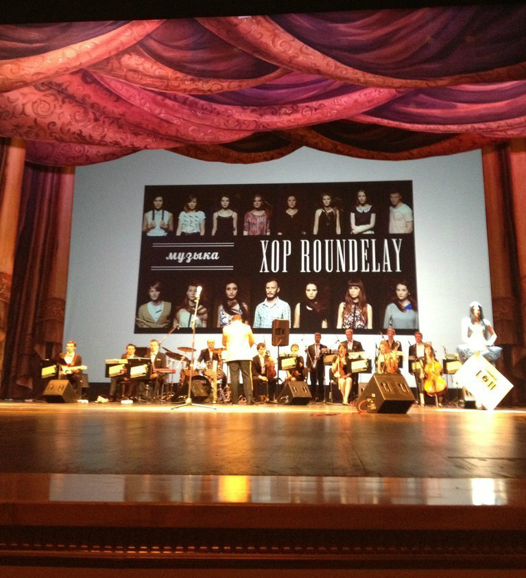 Roundelay - Sobaka 2013